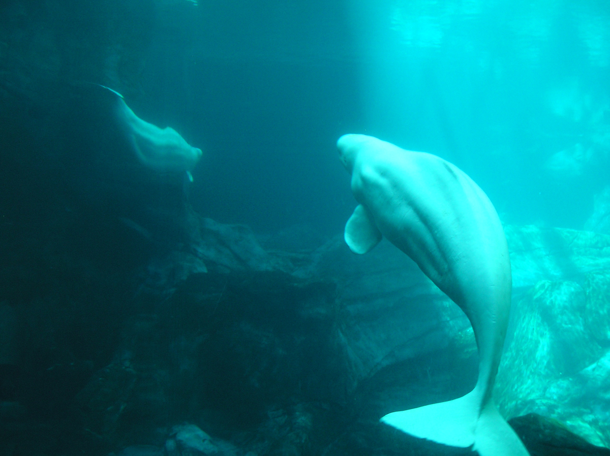 The absence of the dorsal fin is reflected in the genus name of the species - apterus is the Greek for "wingless". The evolutionary preference for a dorsal ridge in favor of a fin is believed by scientists to be adaptation to under-ice conditions, or possibly as a way of preserving heat.